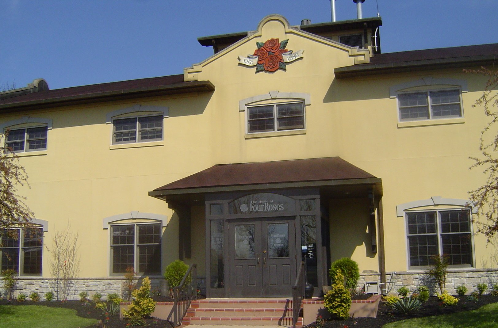 Four Roses main facility in Lawrenceburg, Kentucky